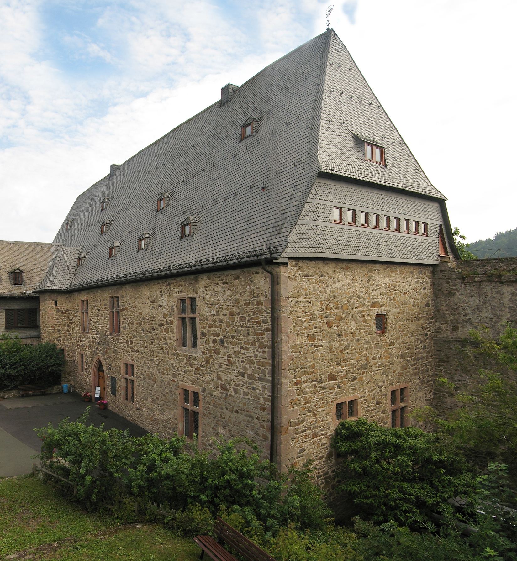 The Castle of Biedenkopf